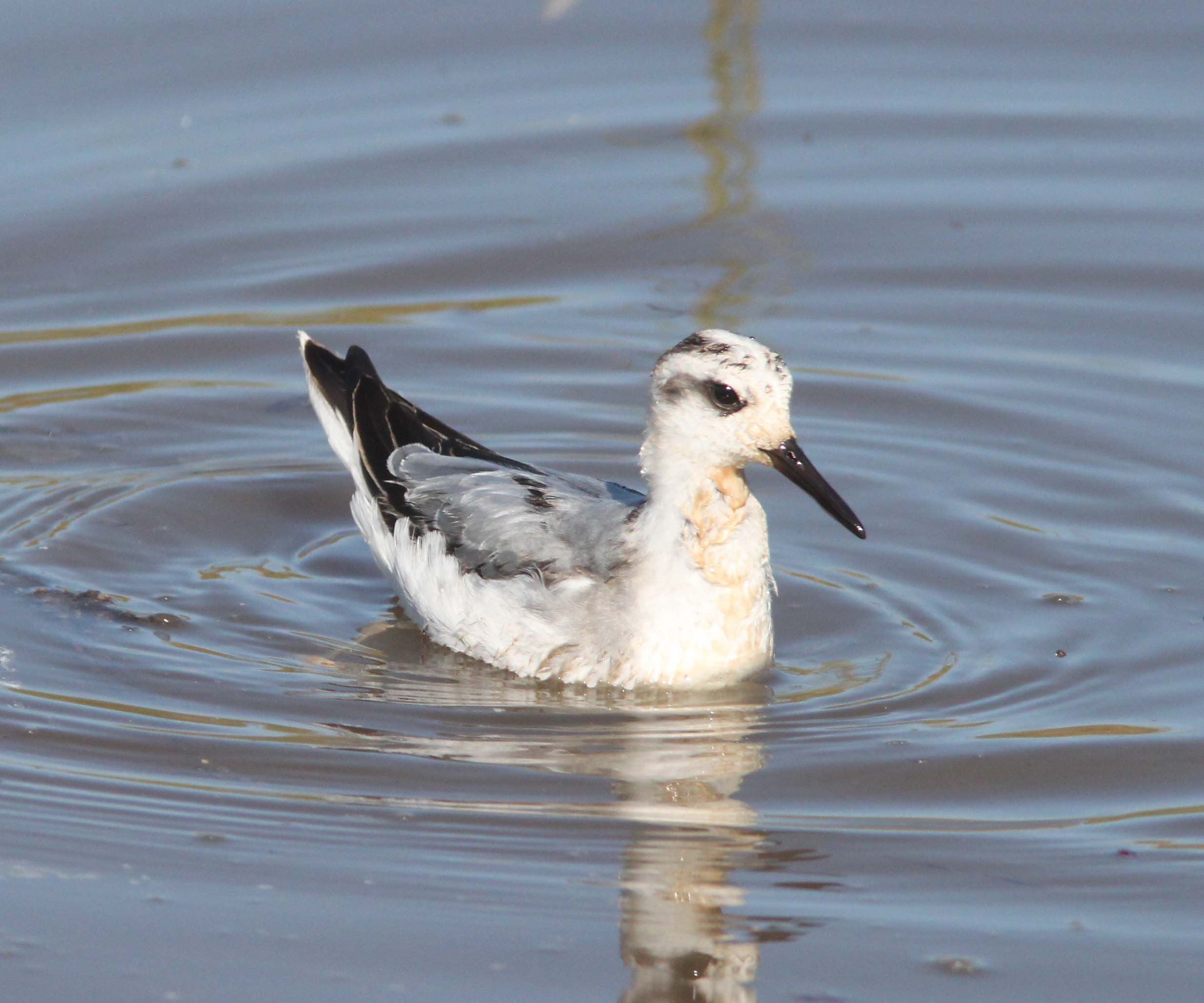 ARIZONA - BIRDS of SANTA CRUZ County